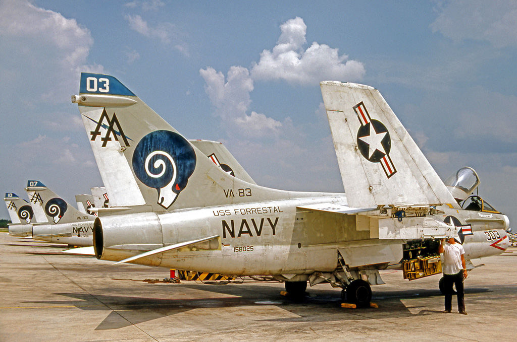 A U.S. Navy Ling-Temco-Vought A-7E-9-CV Corsair II (BuNo 158025) of Attack Squadron VA-85 at NAS Cecil Field, Florida (USA), in 1976.